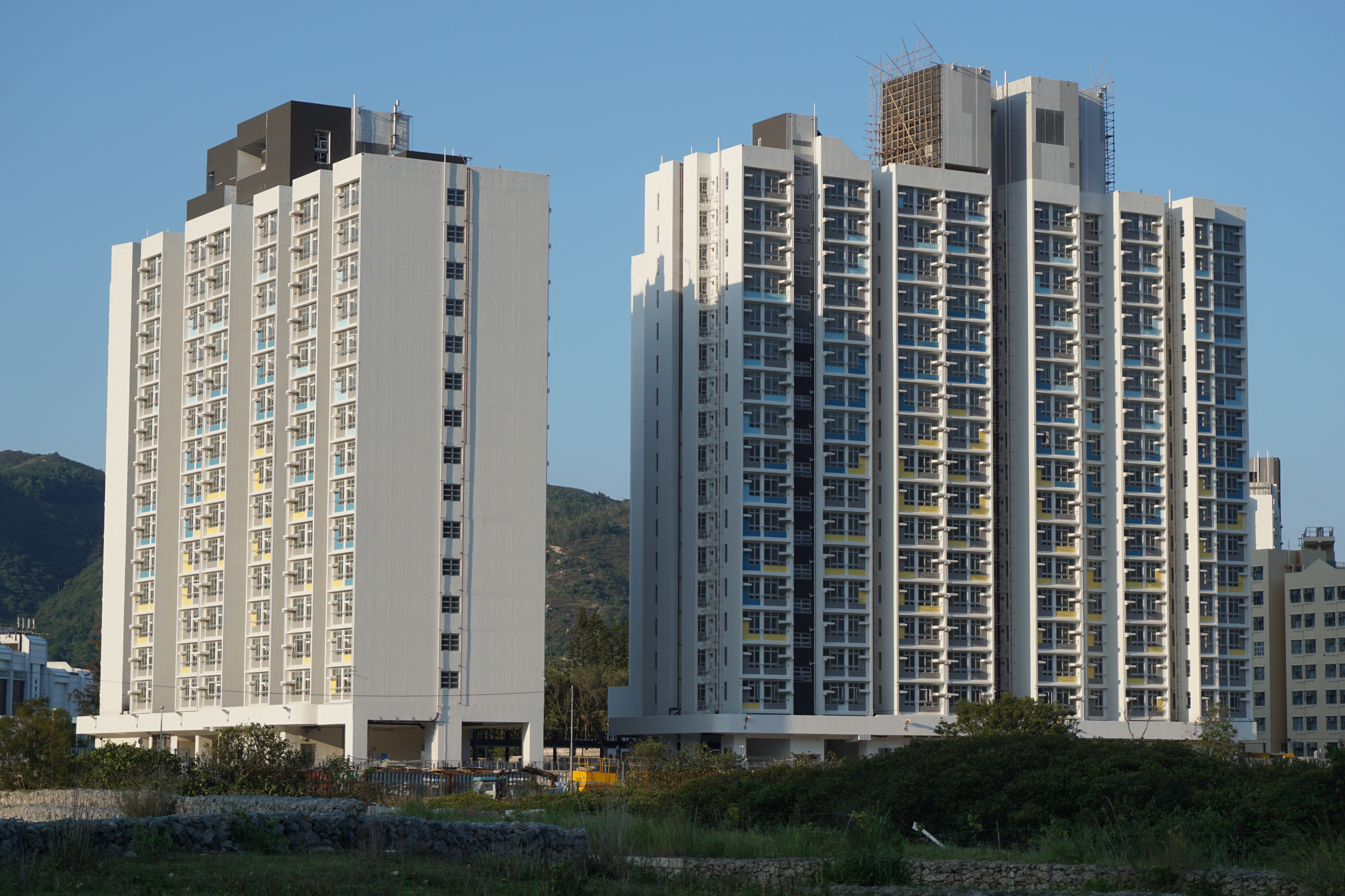 Ngan Ho Court in Mui Wo, Hong Kong.